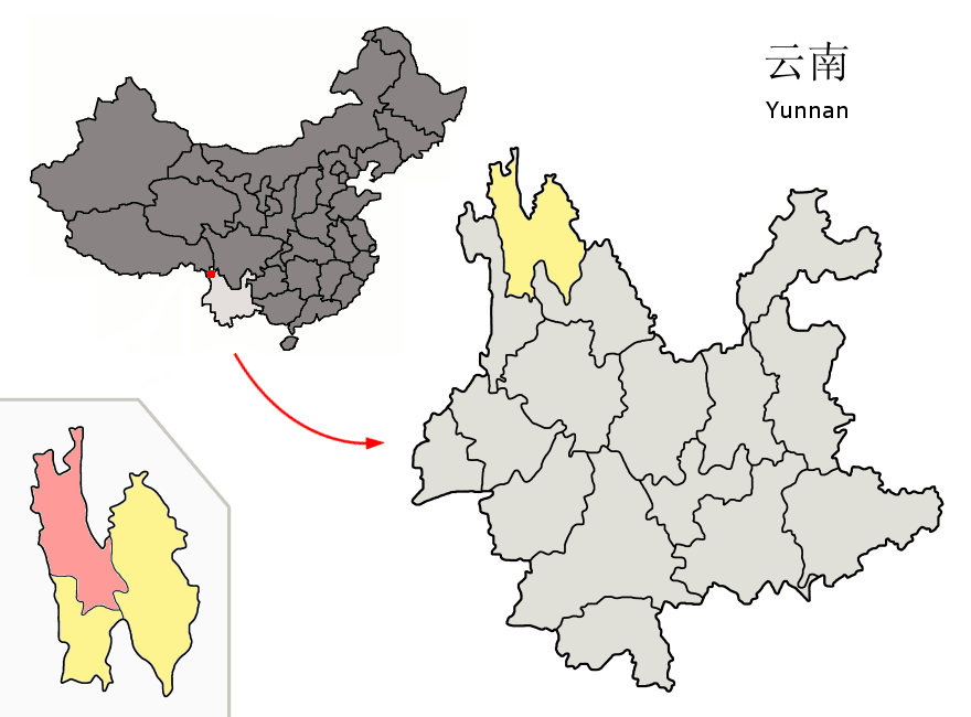 Location of Dêqên County (pink) and Dêqên prefecture (yellow) within Yunnan province of China Map drawn in september 2007 using various sources, mainly : Yunnan province administrative regions GIS data: 1:1M, County level, 1990 Yunnan Counties map from